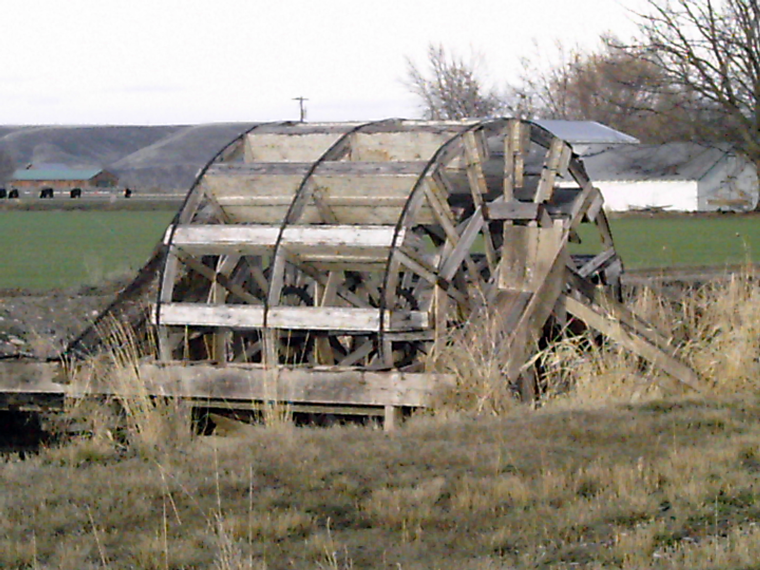 One of the waterwheels outside of New Plymouth.